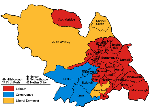 Ward map of Sheffield Council with political colouring for the 1991 election.